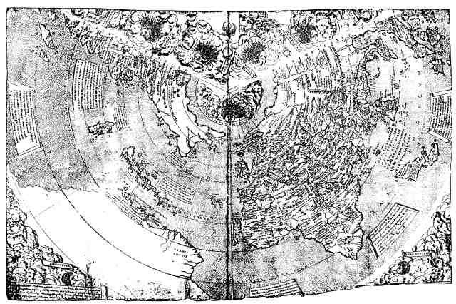 The Contarini map (1506), first printed map showing the Americas